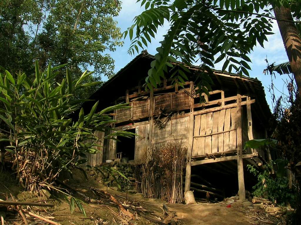 Homestay in Nanlong, Guizhou, China.